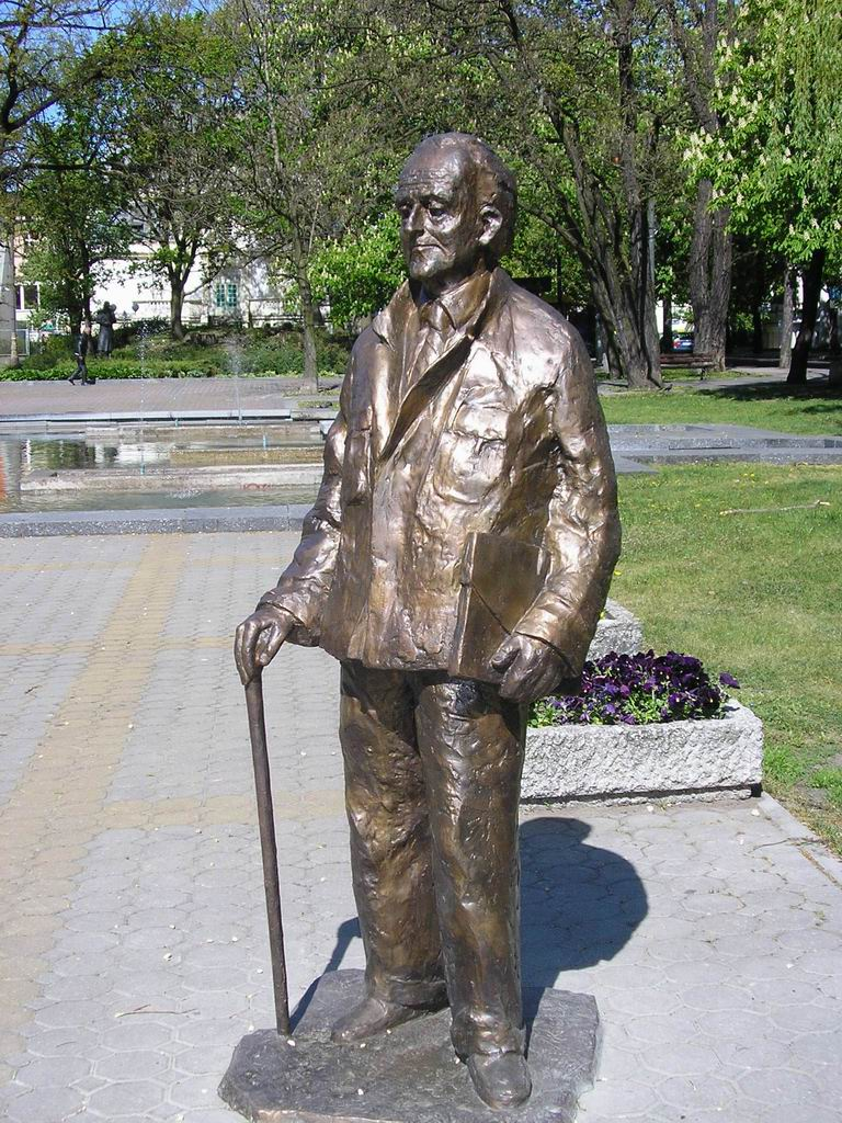 Statue of Andrzej Szwalbe, Bydgoszcz.